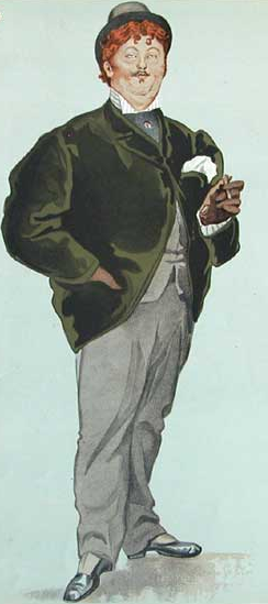 Caricature of William Douglas-Hamilton, 12th Duke of Hamilton Caption read "Premier Peer of Scotland".